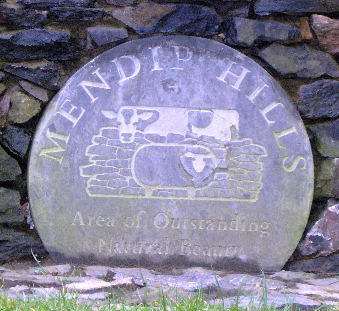 Mendip Hills AONB sign at Burrington Combe. Taken by Rod Ward 25th Feb 2007